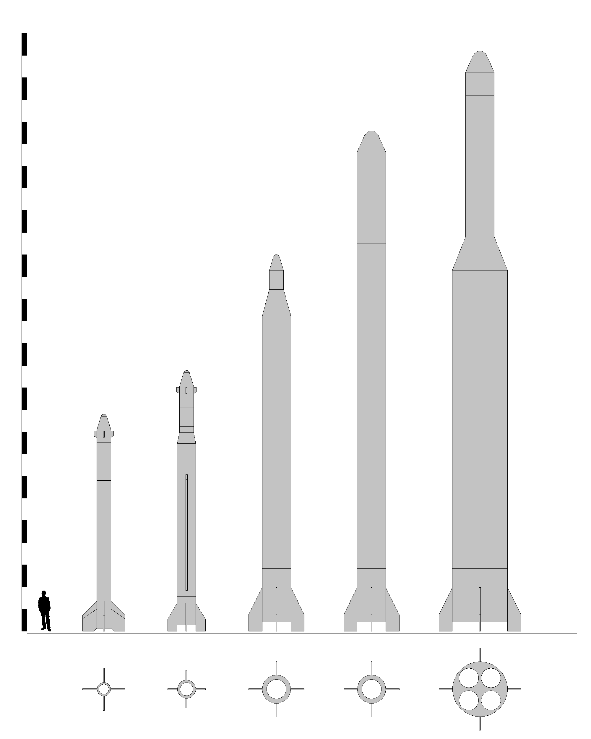 Active space launch vehicles of Iran: Kavoshgar-C, Kavoshgar-D, Kavoshgar-1, Safir and SimorghSrpskohrvatski / српскохрватски: Operativne rakete-nosači Irana: Kavošgar-C, Kavošgar-D, Kavošgar-1, Safir i Simorg